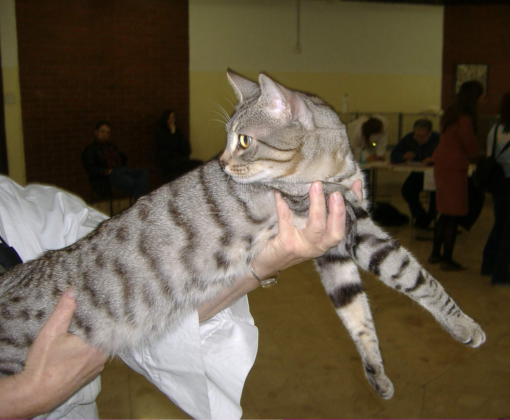 photo was taken at the International Cat Show in Zagreb, Croatia, 11.3. 2007.